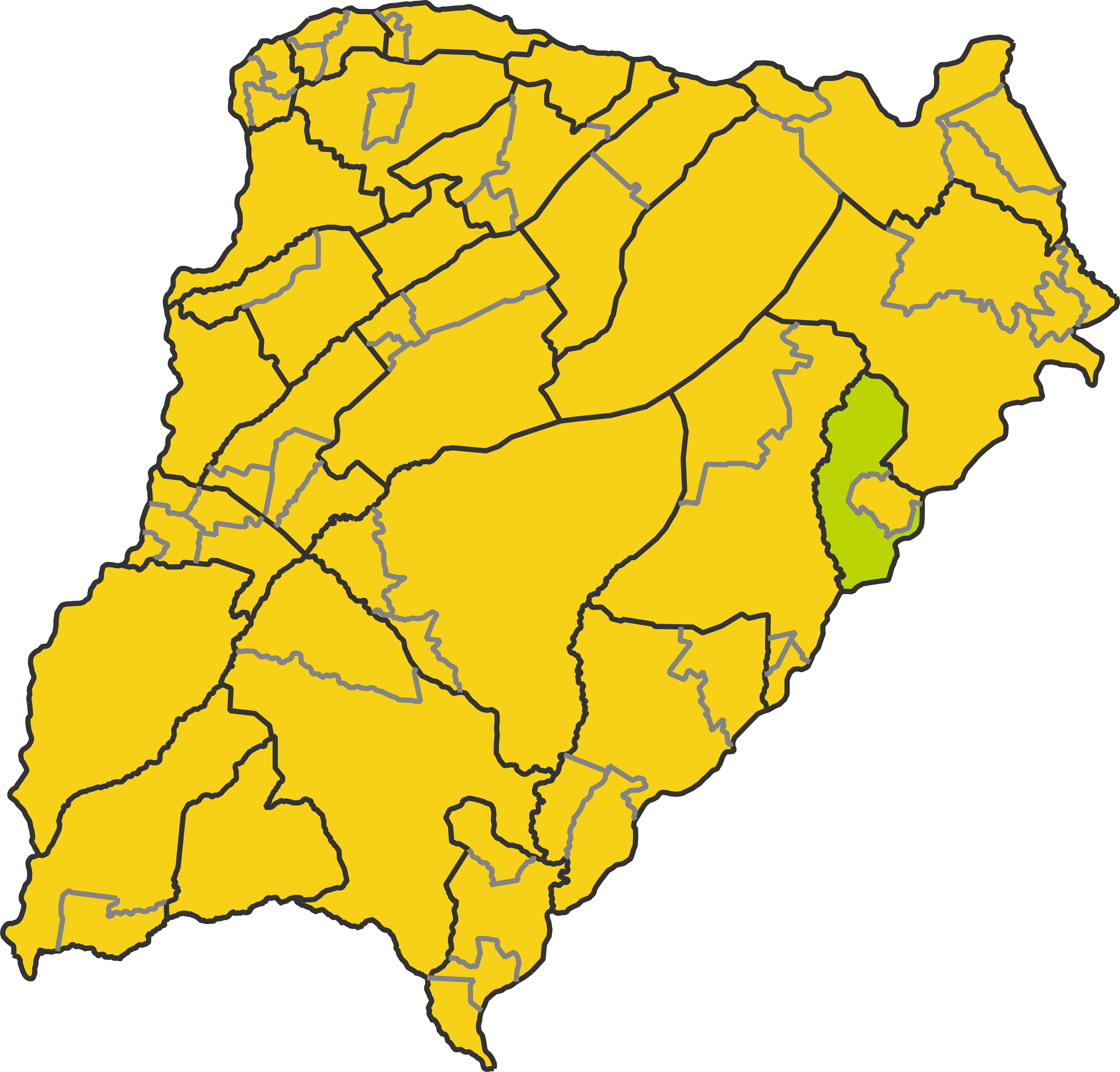 Map of the municipio de Alvear in Alvear department, Corrientes province, Argentina